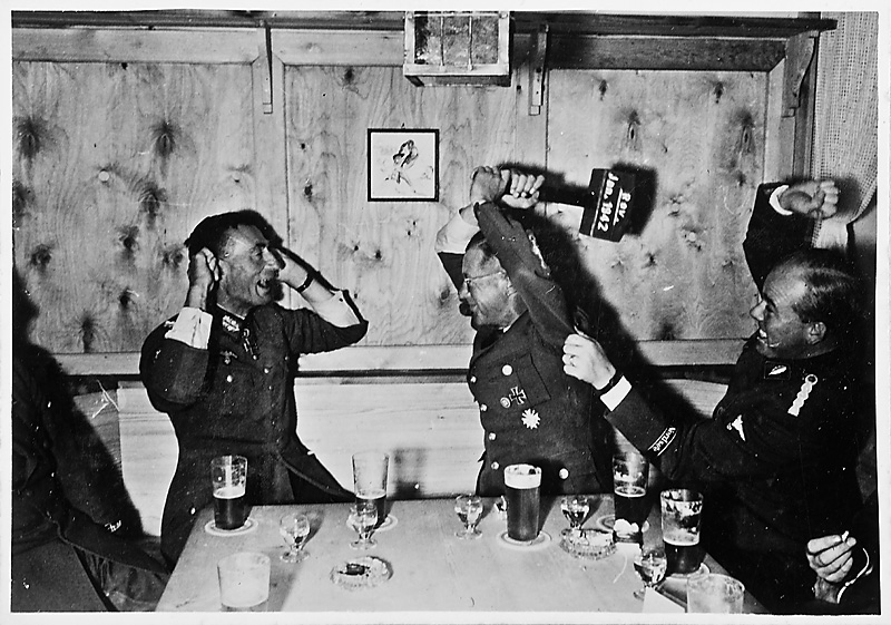 Image from "Photo Album from Terboven's journey to Nothern Norway and Finland 10–27 July 1942" (Mit dem Reichskommissar nach Nordnorwegen und Finnland 10. bis 27. Juli 1942), 375 images uploaded to www. by Riksarkivet (National Archives of Norway) 2012. See scanned album here